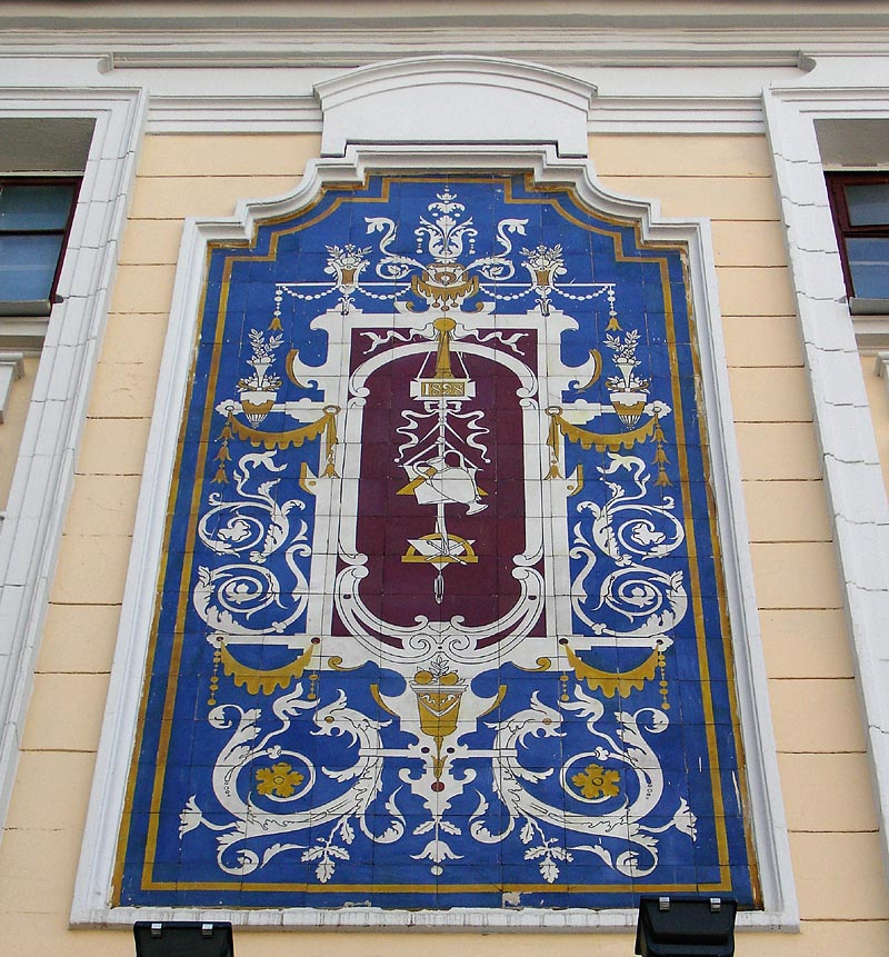 Ceramic tablet, Moscow Architectural Institute, Rozhdestvenka Street, Moscow. Built for the Moscow School of Painting, Sculpture and Architecture during the Tzarist era.